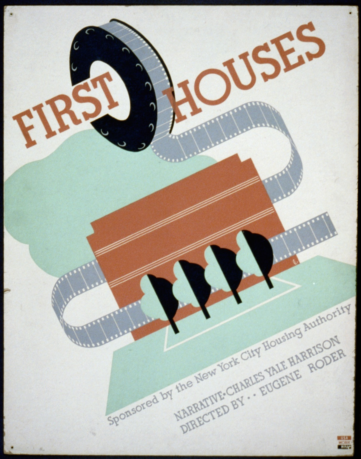 Title: First houses Abstract: Poster announcing presentation of film, "First Houses" showing roll of film and landscape with trees. Physical description: 1 print on board (poster) : silkscreen, color. Notes: Work Projects Administration Poster Collection (Library of Congress).; Date stamped on verso: Sep 12 1936.